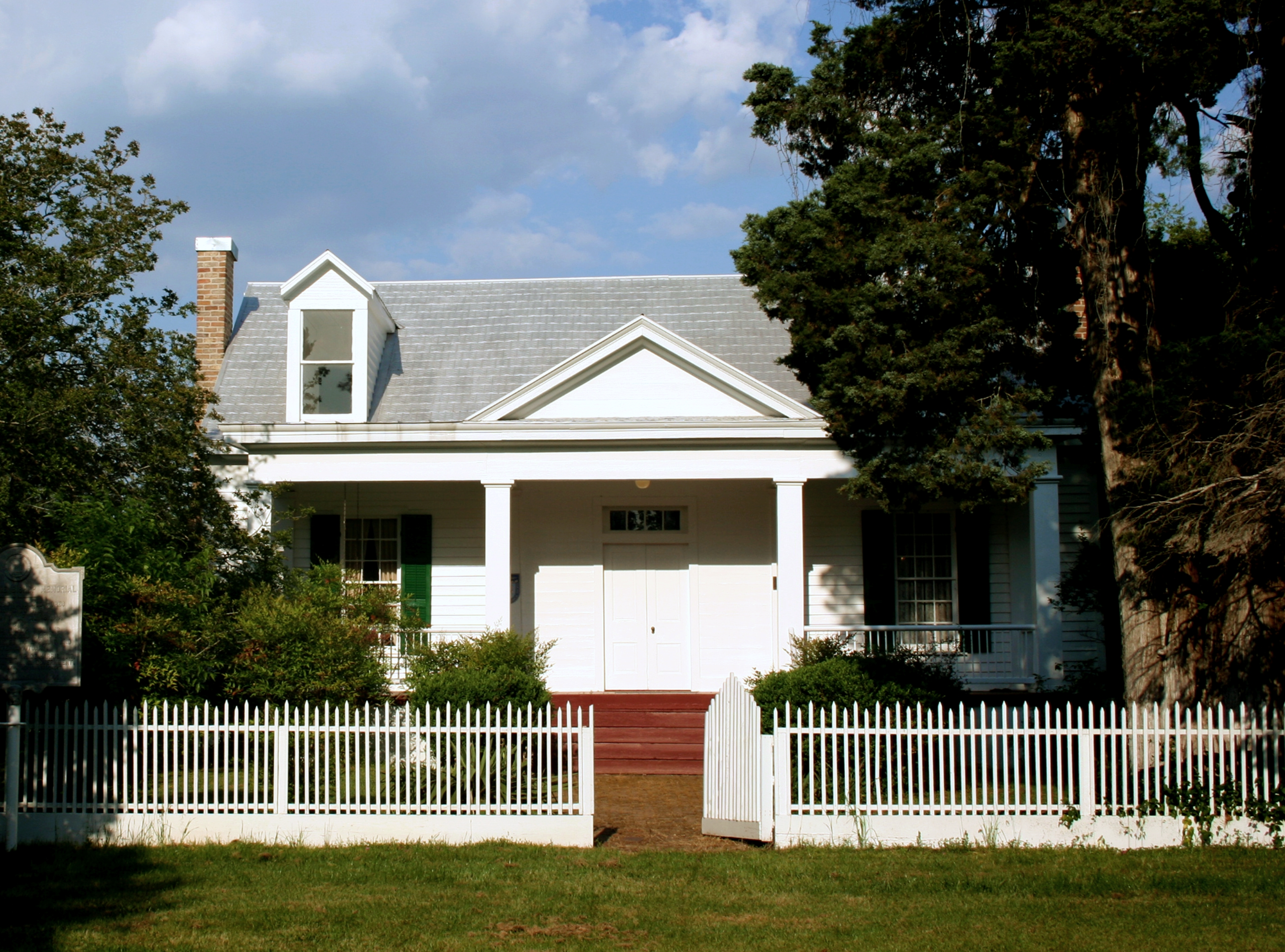 Tanglewood Plantation Plantation near Akron, Hale County, Alabama.